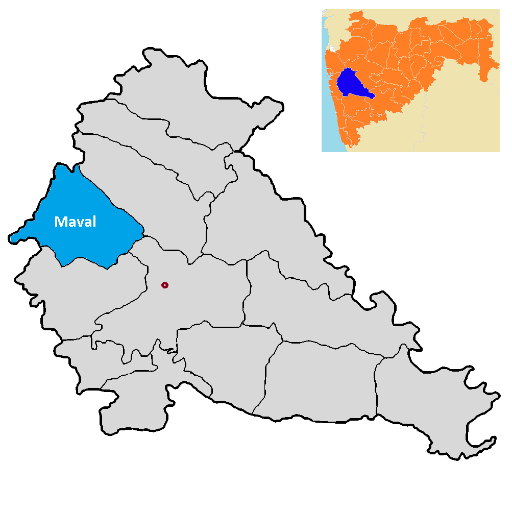 Maval tehsil in Pune district